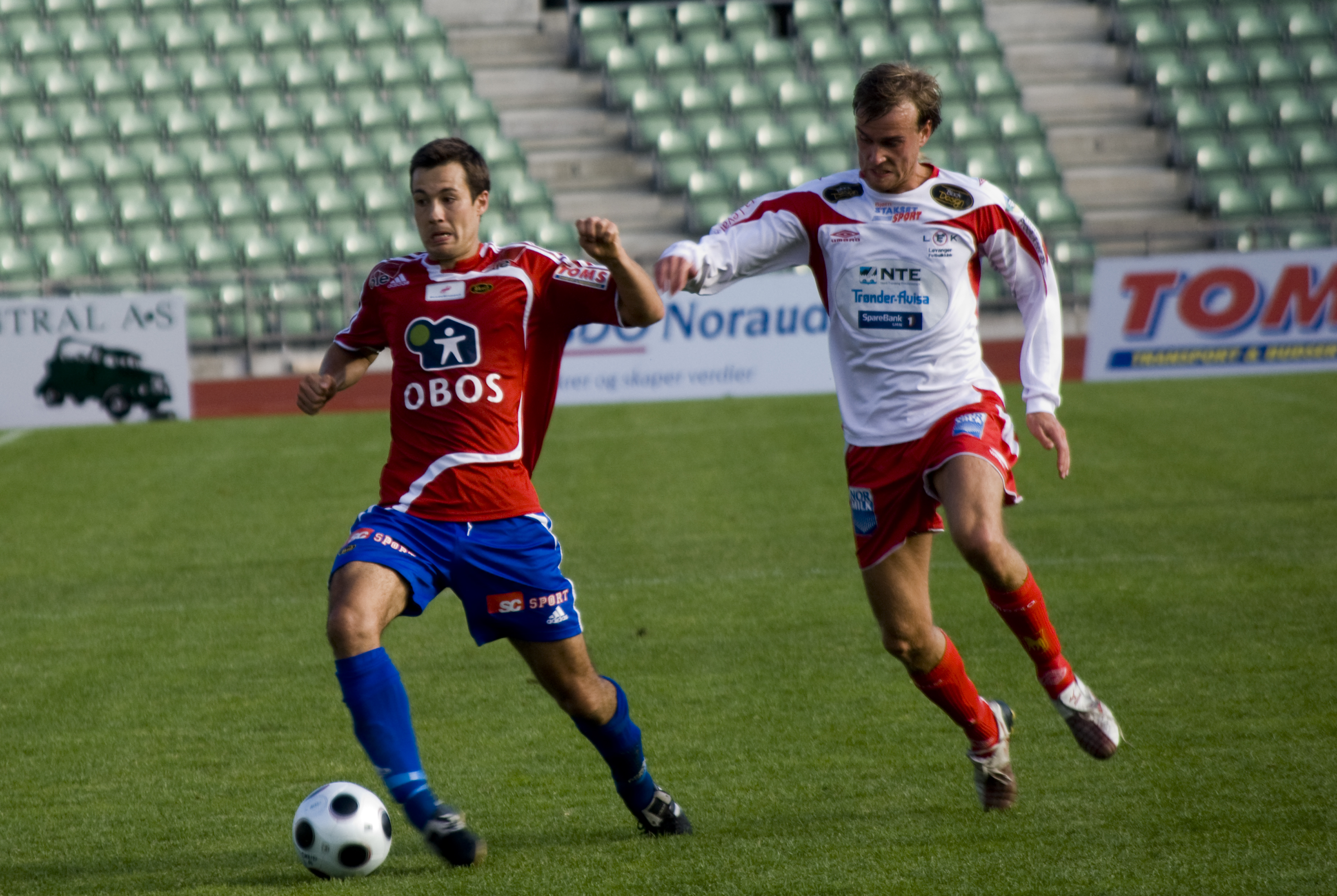 Skeid Fotball - Levanger FK 3-2, Norwegian second division (level 3) group 2, 30 August 2008. Simen Røine Johansen, Skeid (left); unknown player, Levanger (right)